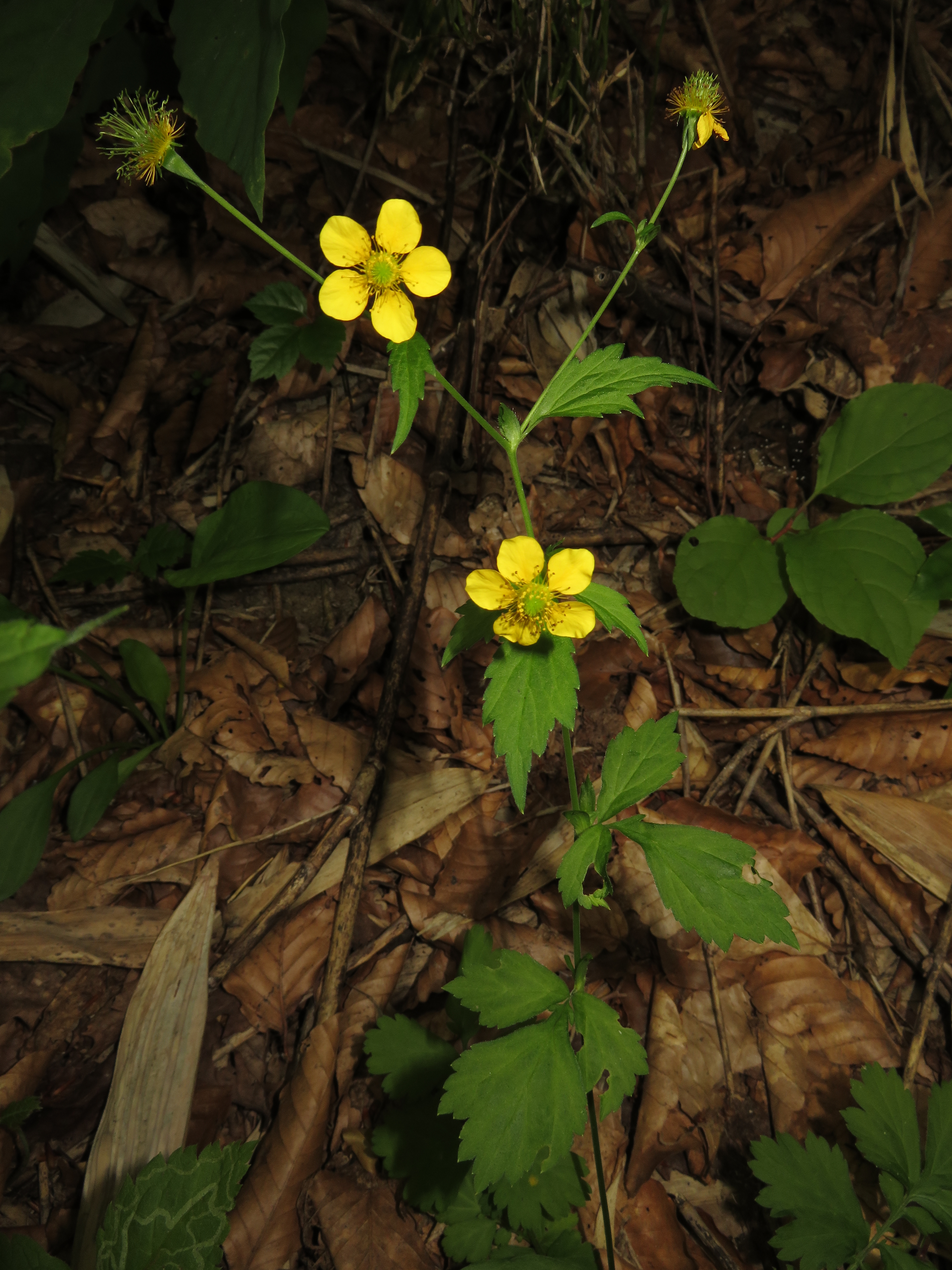 Geum japonicum, Aizu area, Fukushima pref., Japan